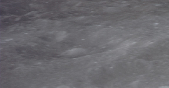 Oblique view of Airy crater, on the moon, facing south. The original is somewhat blurry. Brightness and contrast adjusted.